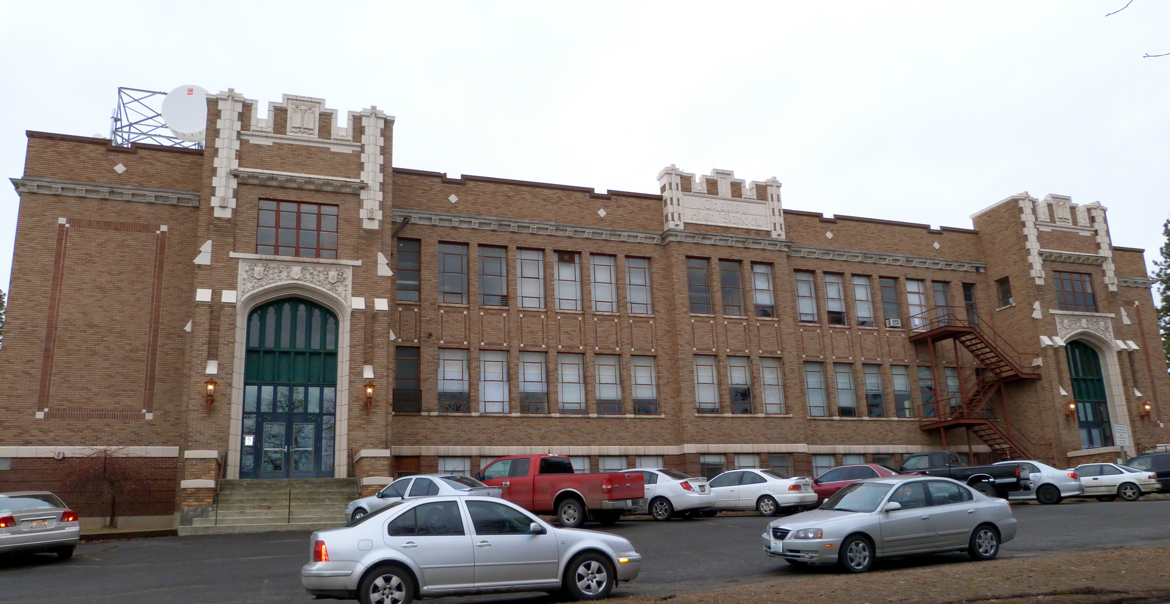 The historic Cheney High School building (built 1931), now used for administrative purposes under the name Fisher Building, located at 520 4th Street in Cheney, Washington, United States, is listed as a contributing resource in the City of Cheney Historic District. The district is listed on the US National Register of Historic Places.